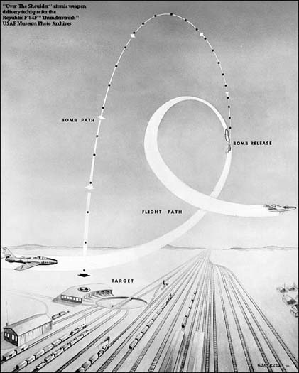 A U.S. military diagram of the over the shoulder bombing technique.